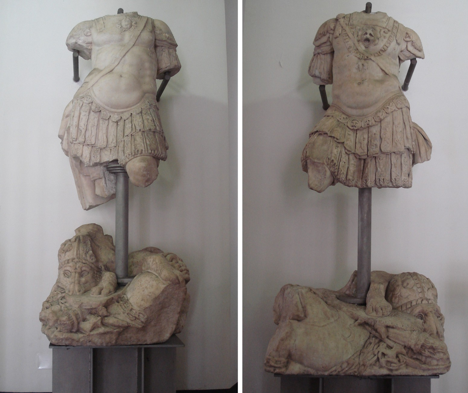 Statues of Andrea Doria (by Giovanni Montorsoli, 1540) and of Gio Andrea Doria (by Taddeo Carlone, 1601) in Doge's Palace in Genoa